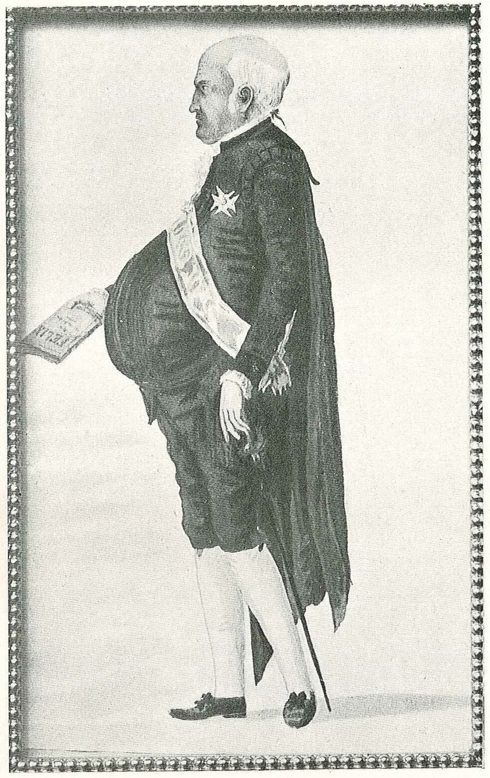 Jonne Hugo Hamilton (1752-1805), Swedish baron, officer, courtier and head of the Royal Swedish Opera. Watercolour painting by unknown artist.